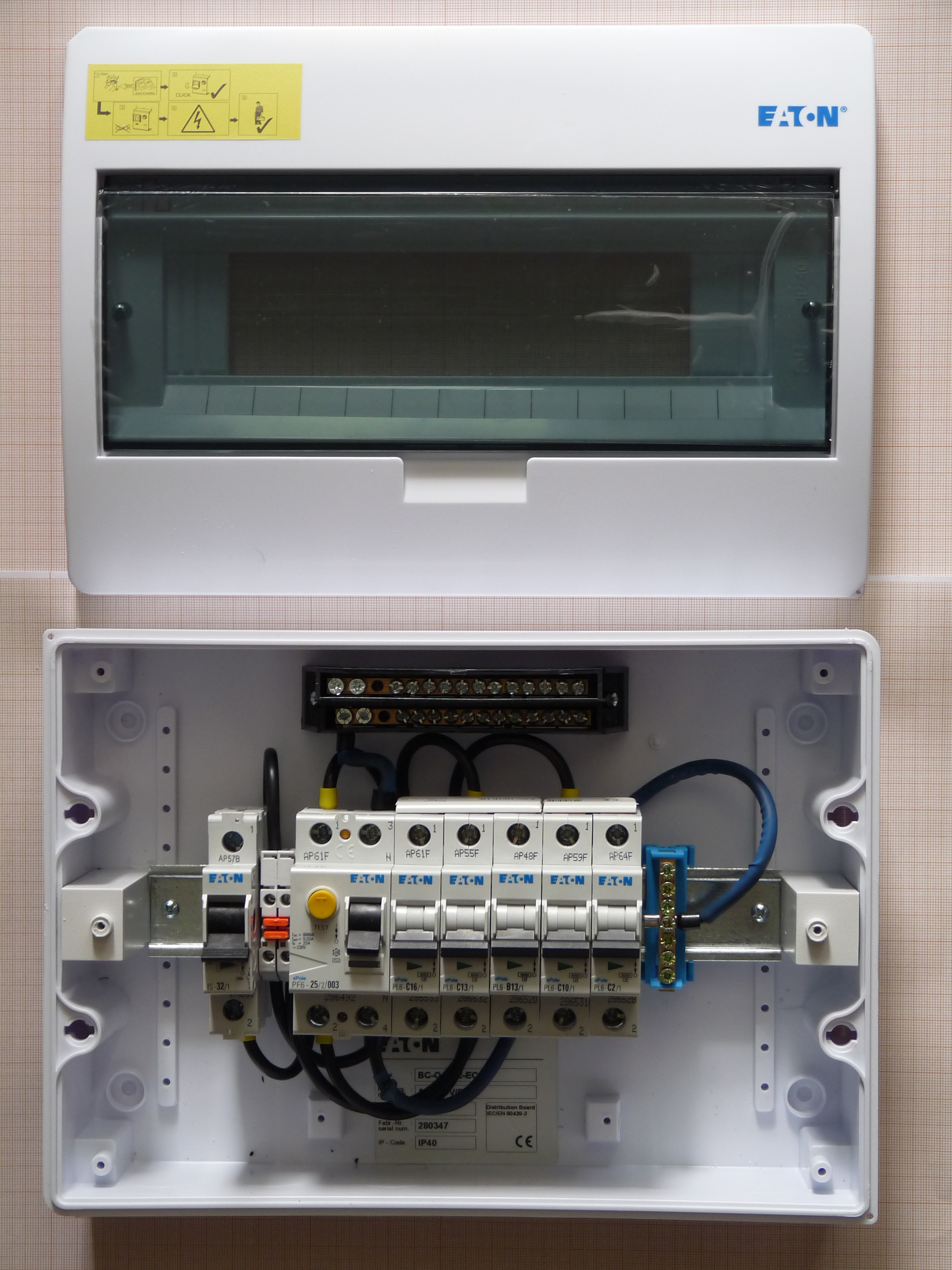 Fuse box for 1-room apartment